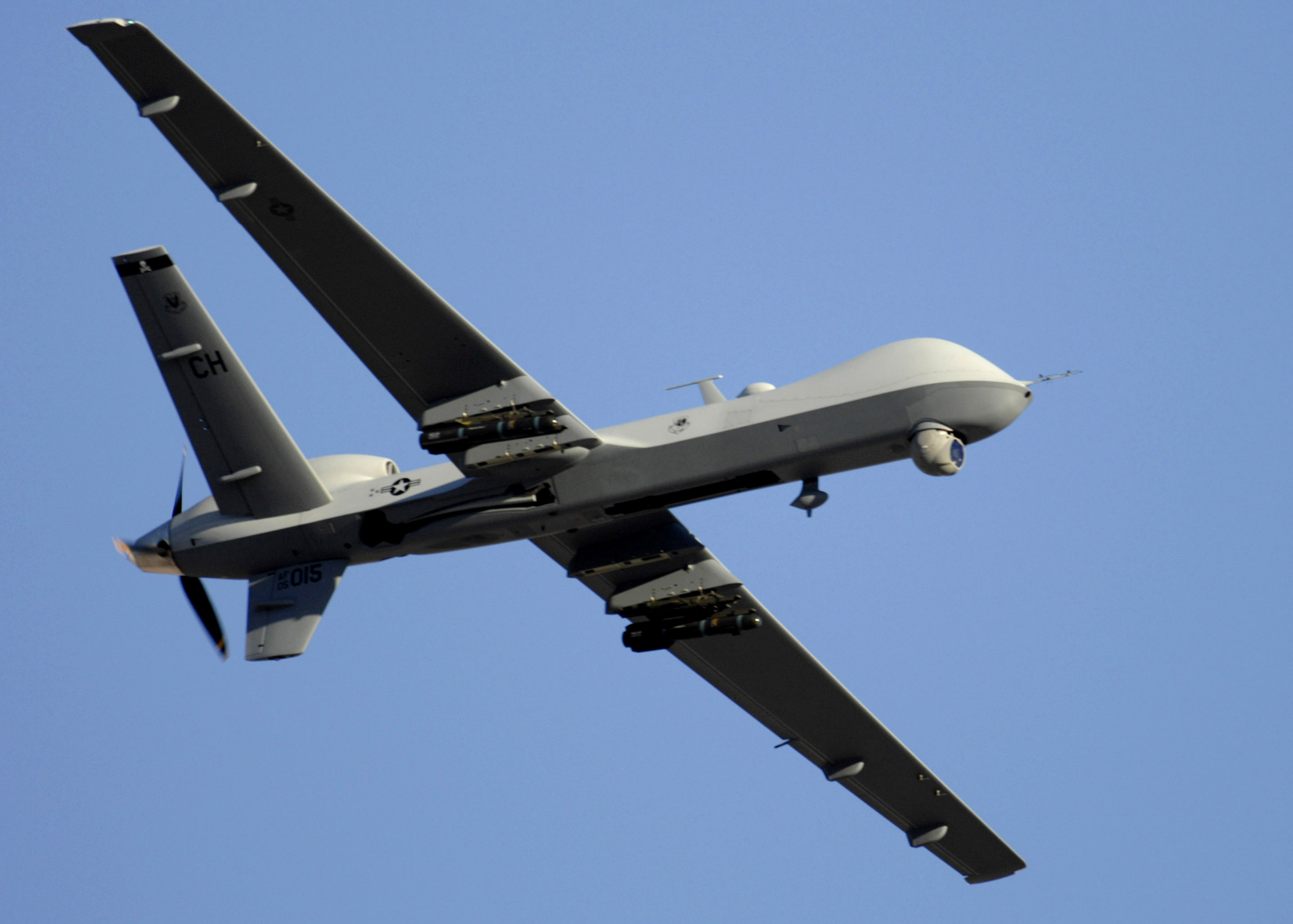 An MQ-9 Reaper unmanned aerial vehicle flies over the crowd during the Aviation Nation Air Show at Nellis Air Force Base, Nev., Nov. 10, 2007. Aviation Nation is the Air Force\'s premier air show and one of the largest in North America. This year\'s show commemorates 60 years of air power and is the capstone event of the Air Force\'s year-long 60th anniversary celebration.